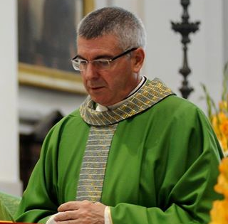 The Bishop Adriano Cevolotto during a mass in Castelfranco Veneto